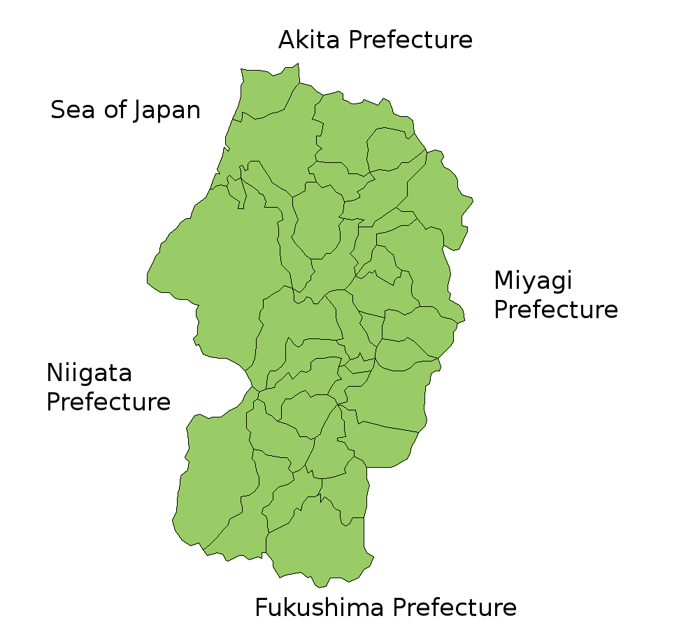 Map of Yamagata Prefecture, Japan. Thanks to Aoki Shigenobu and [1]. Colors from Image:TokyoMapCurrent.png by User:Fg2.